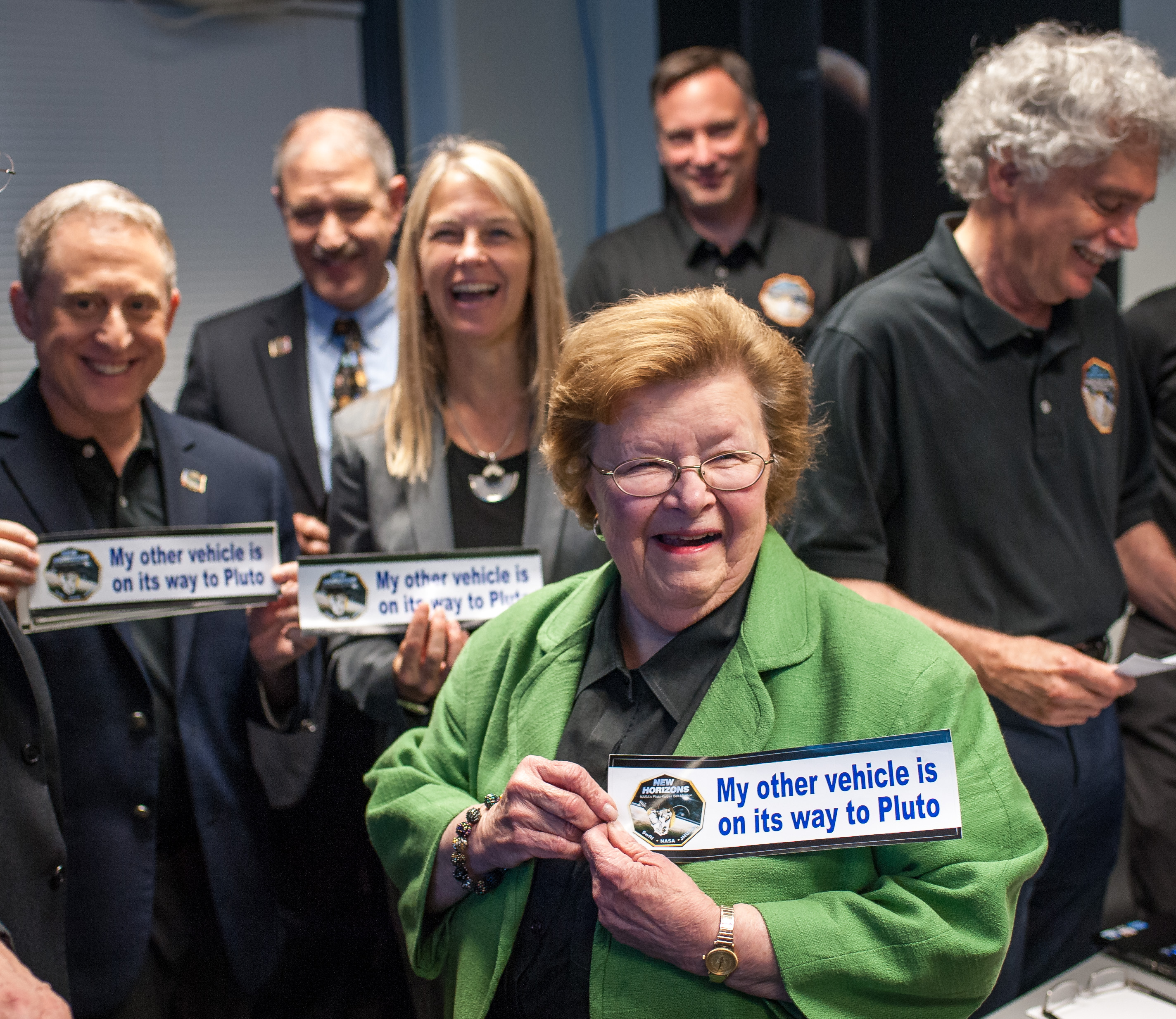 Sen. Barbara Mikulski, D-Md. holds a bumper sticker given to her by members of the New Horizons team at the Johns Hopkins University Applied Physics Laboratory (APL) Monday, July 13, 2015 at APL in Laurel, Maryland. Also in the photograph are: Johns Hopkins University Applied Physics Laboratory (APL) Director Ralph Semmel, left, New Horizons Principal Investigator Alan Stern of Southwest Research Institute (SwRI), Boulder, CO., Associate Administrator for the Science Mission Directorate John Grunsfeld, and NASA Deputy Administrator Dava Newman.)